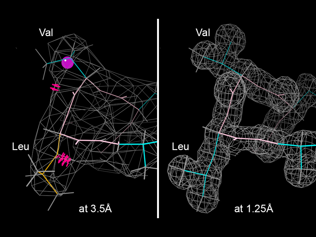 Comparison of low vs high resolution electron density for the same detail of crystal structure on a helix in hemoglobin (2QLS at 3.5Å vs 2DN2 at 1.25Å). Not surprisingly, the low-resolution density is hard to fit accurately, and it shows bad steric overlaps ("clashes", marked with red spikes) and incorrect sidechain conformations. Validation diagnosis in MolProbity, display in KiNG.